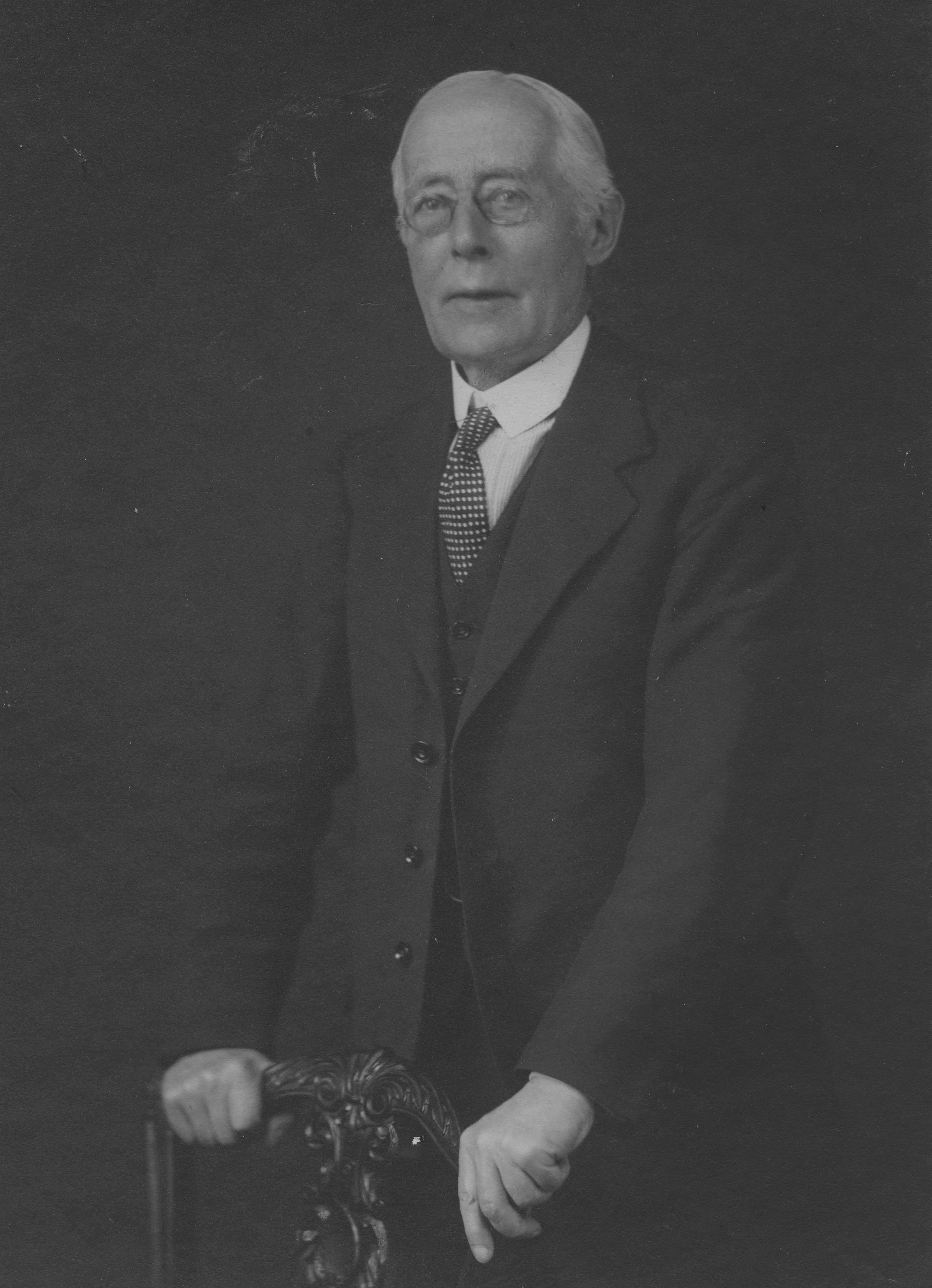 First Professor of English Law at LSE 1924-1930 IMAGELIBRARY/897 Persistent URL